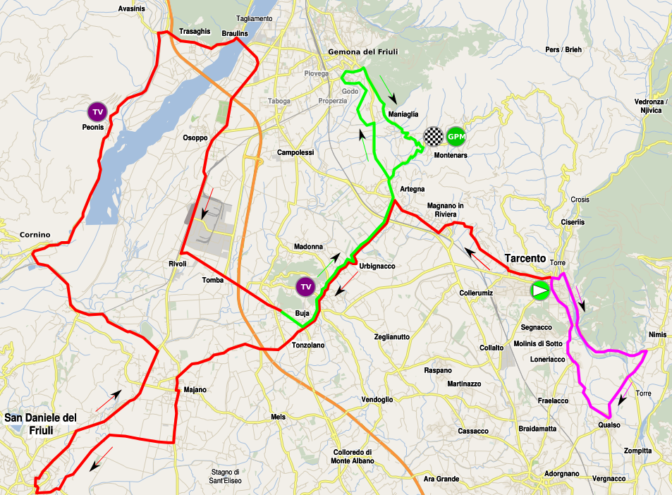 Map of the stage 2 of the Giro rosa 2016.